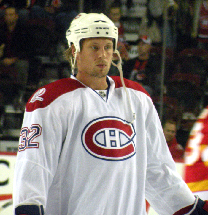 Montreal Canadiens forward Travis Moen during warm-up prior to a National Hockey League game against the Calgary Flames, in Calgary.